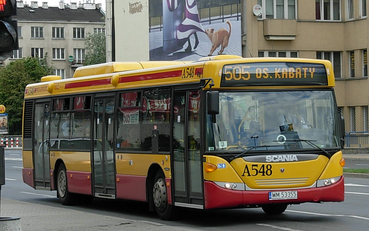 Scania CN270UB 4x2 EB OmniCity bus (#A548) in Warsaw, Poland (Waryńskiego Street). Year built 2007, PKS Grodzisk Mazowiecki operator. Made by Scania Production Słupsk.